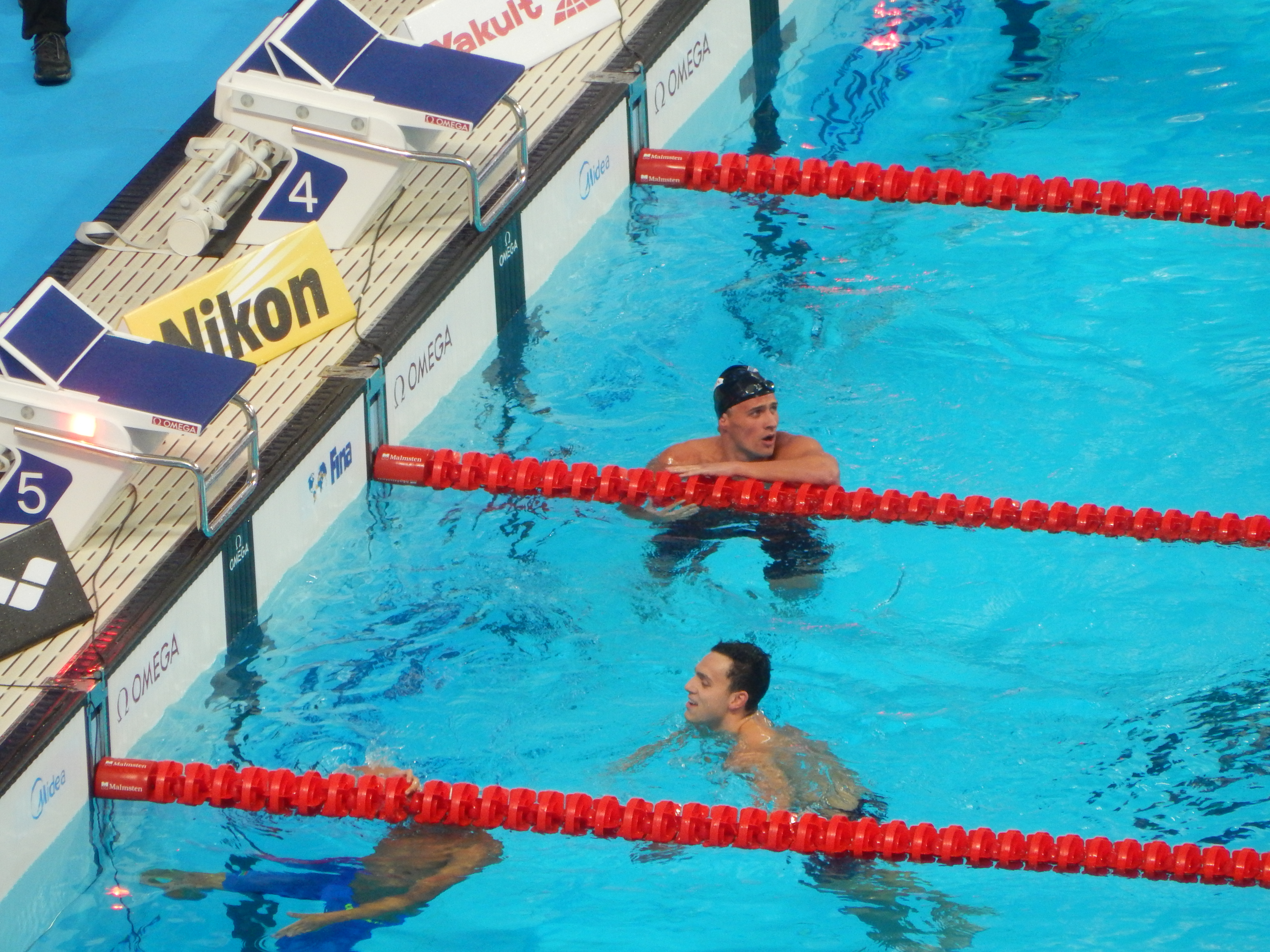 James Guy and Ryan Lochte after 200m freestyle final